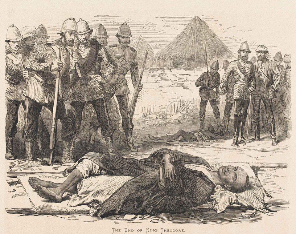 The End of King Tewodros II